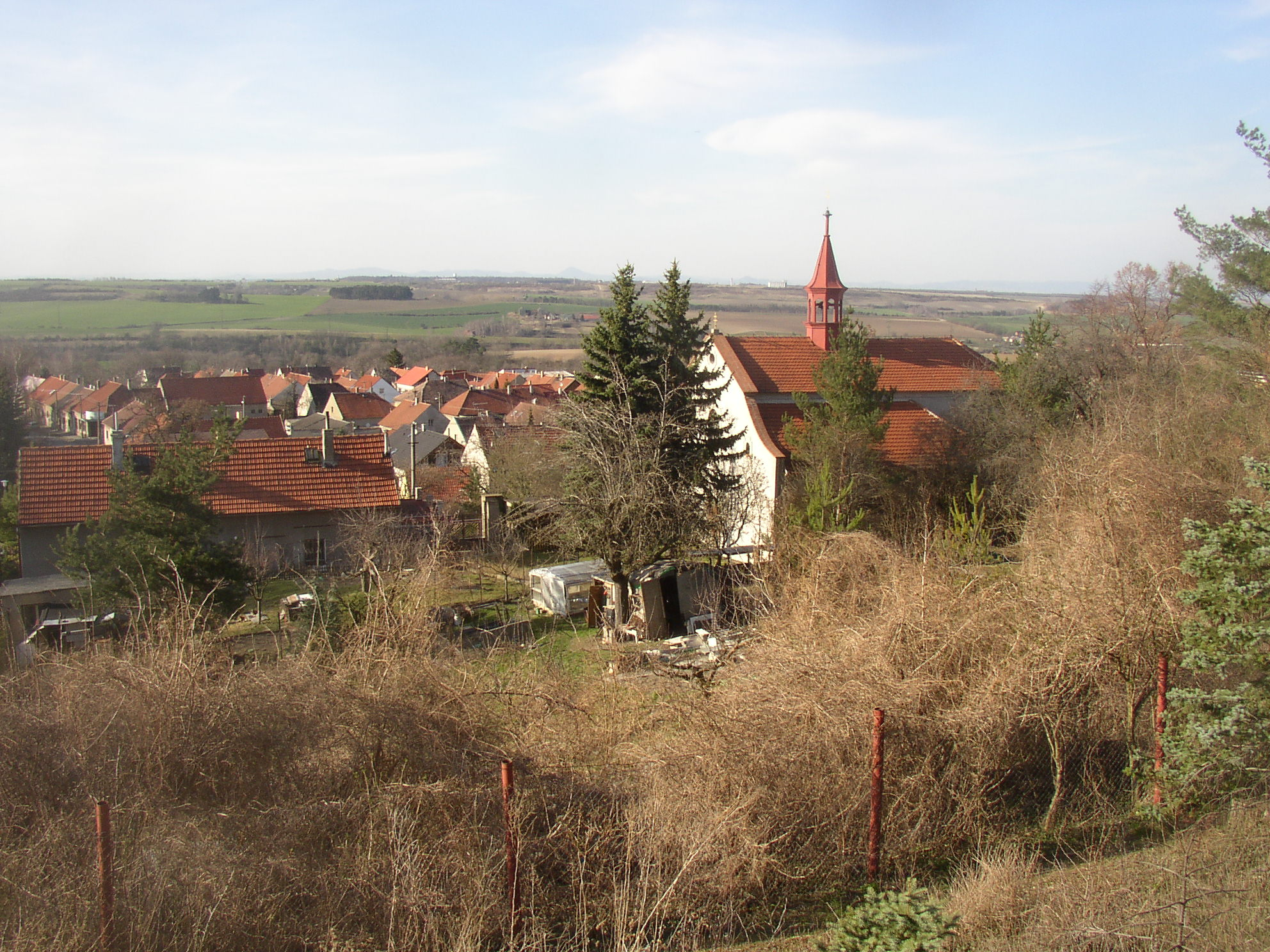 Pchery, Kladno District, Czech Republic. A view from the belfry above the village towards the north, over St Stephen church.